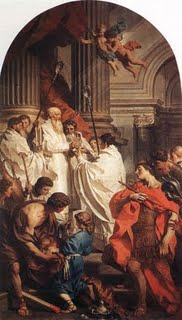 Mass of St Basil, oil on canvas, 133,5 x 80 cm The Hermitage, St. Petersburg